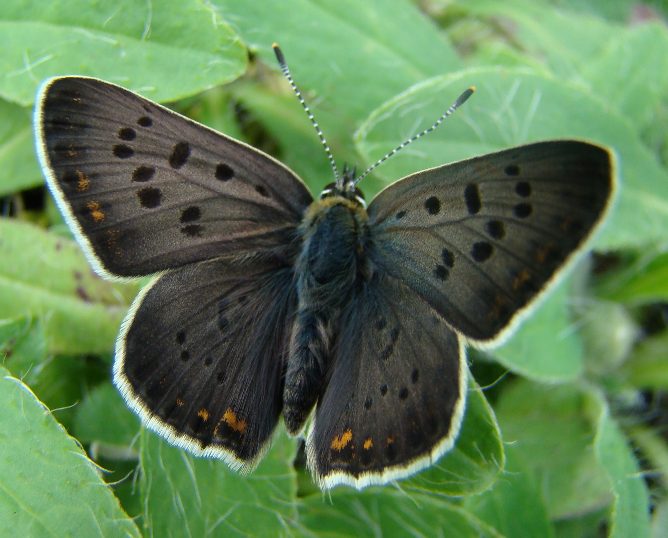 Lycaena tityrus male